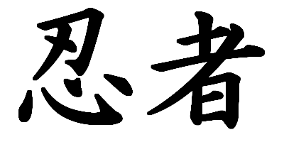 the word "ninja" (忍者) in Sino-Japonese kanji script; landscape format for the German Wiktionary